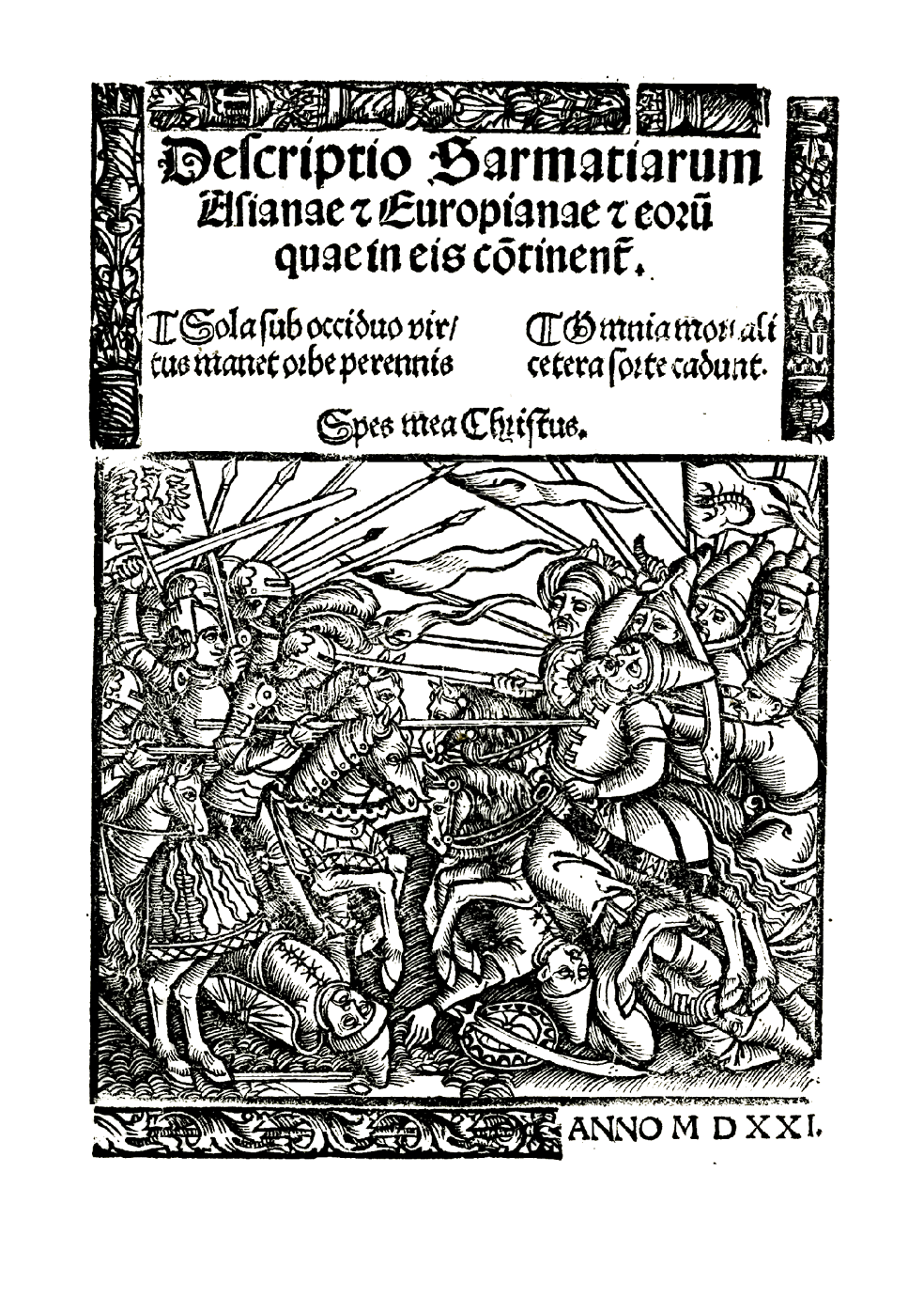 Title page of "Description of Asian and European Sarmatias" (Descriptio Sarmatiarum Asianae et Europianae), 1521